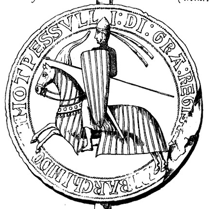 Peter II of Aragon